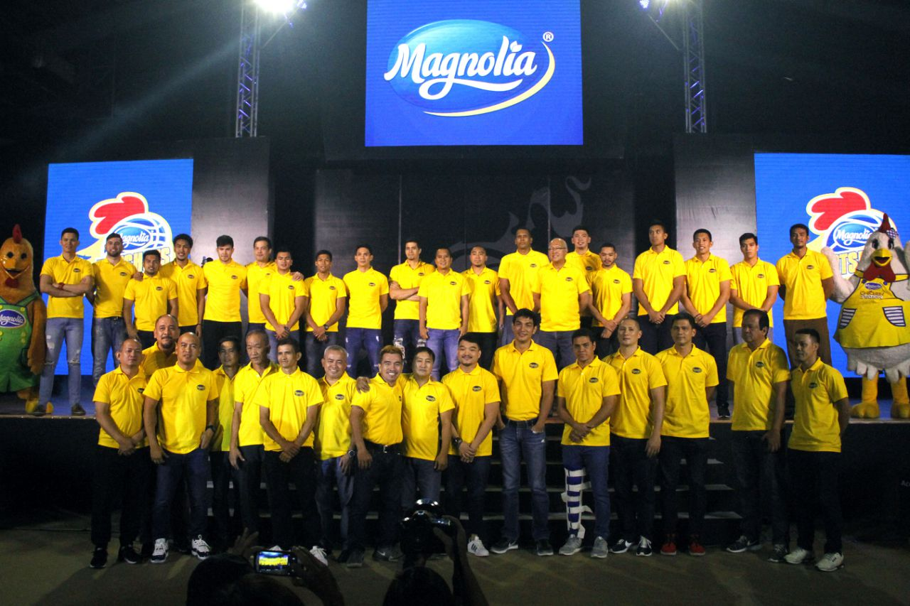 The Star Hotshots pose for a photo opportunity during the formal press launch of their name change at the Ynares Arena in Pasig City on Monday. The team changed its name to Magnolia Hotshots Pambansang Manok and will compete in the coming Philippine Basketball Association (PBA) season, starting with the Philippine Cup. (PNA photo by Jess M. Escaros Jr.)